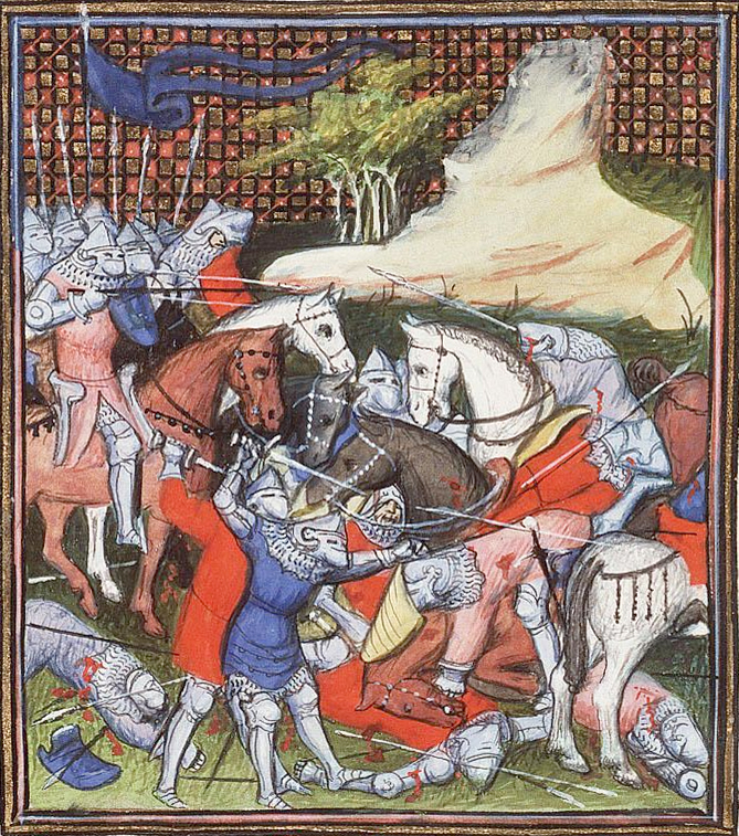 Jean Froissart, Chroniques (Vol. I): Charles de Blois is taken prisoner Place of origin, date: Paris, Virgil Master (illuminator); c. 1410 Material: Vellum, ff. 382, 385x288 (243x187) mm, 42 lines, littera cursiva, Binding: 18th-century brown leather; gilt; with coat of arms of Stadholder William V Decoration: 1 two-column miniature (170x180 mm); 29 column miniatures (115/65x95/80 mm); 1 historiated initial (45x50 mm); decorated initials with border decoration (ff. 1r, 24r, 36r, 62r, 74v, etc.) Provenance: Louis de Luxemburg, conn‚table de France (d. 1475; signature, erased); by descent to his granddaughter Françoise de Luxembourg and her husband Philip of Cleves (d. 1528; coat of arms with label, over erasure; signature); purchased in 1531 from Philip's estate by HenriIII, Count of Nassau (d. 1538); by descent to the Princes of Orange-Nassau, the later Stadholders, at The Hague; carried off in 1795 to Paris by the French and restituted to the Koninklijke Bibliotheek in 1816